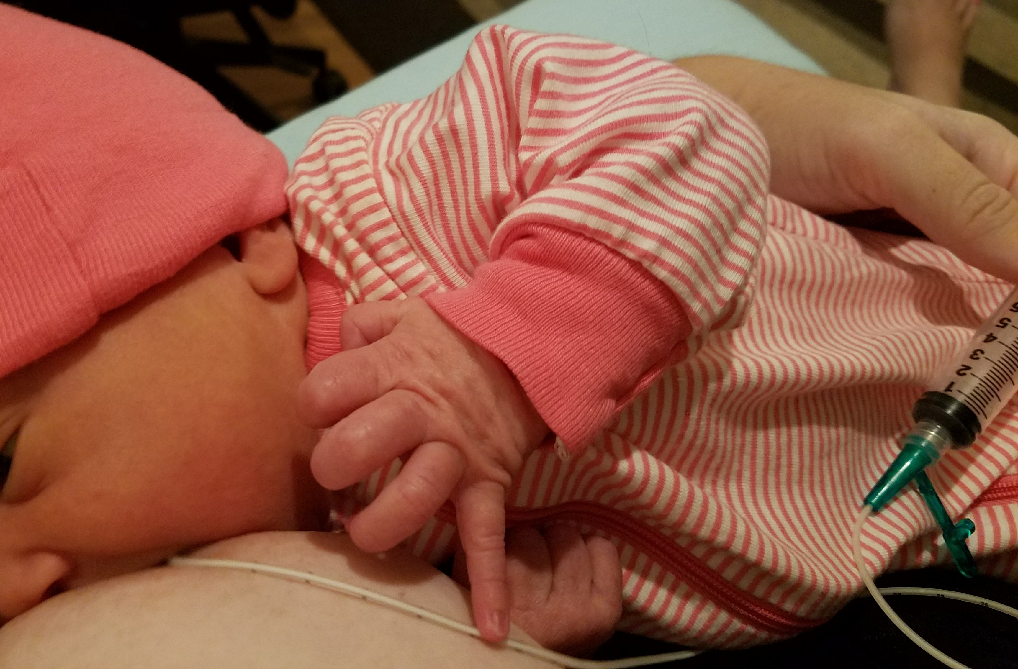 Seen here is a 4 day old infant latched and nursing. A small tube is inserted into the latch which allows the infant to consume additional expressed milk or formula - while also nursing. The benefits to this process include stimulating milk production as the child continues to suckle, and avoid nipple confusion if the family does not plan to use bottles. It can also be helpful in the case of thrush infection, if the infant has stopped wanting to suckle due to assoxisted pain. The pictured mother has a lot of experience using this system - but it can be difficult to get the hang of. It is easiest to prepare the syringe(s) ahead of a nursing session. This mother used this system twice with each of her children, for about 2.5-3 weeks.